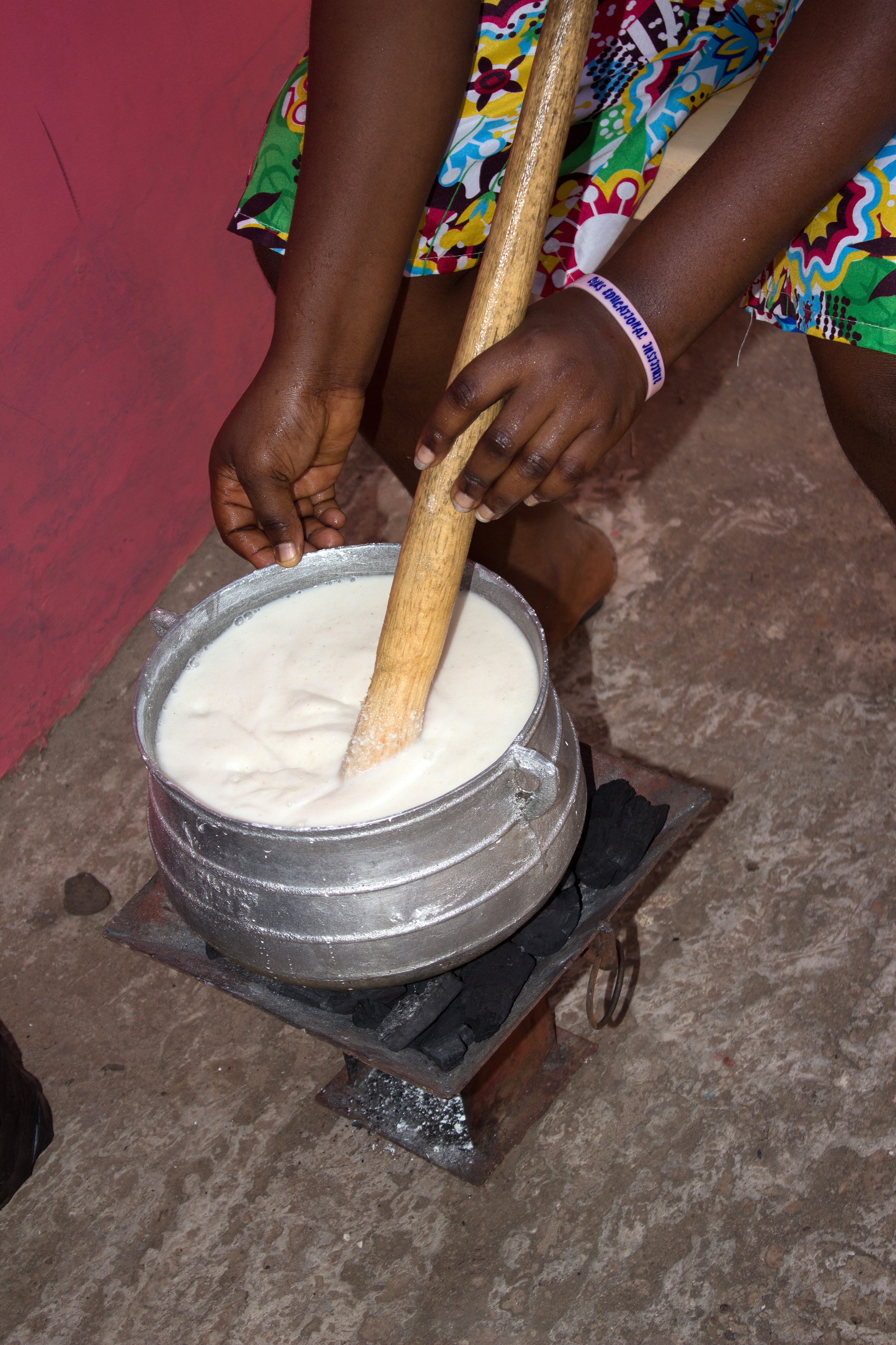 This is an image of food from Ghana